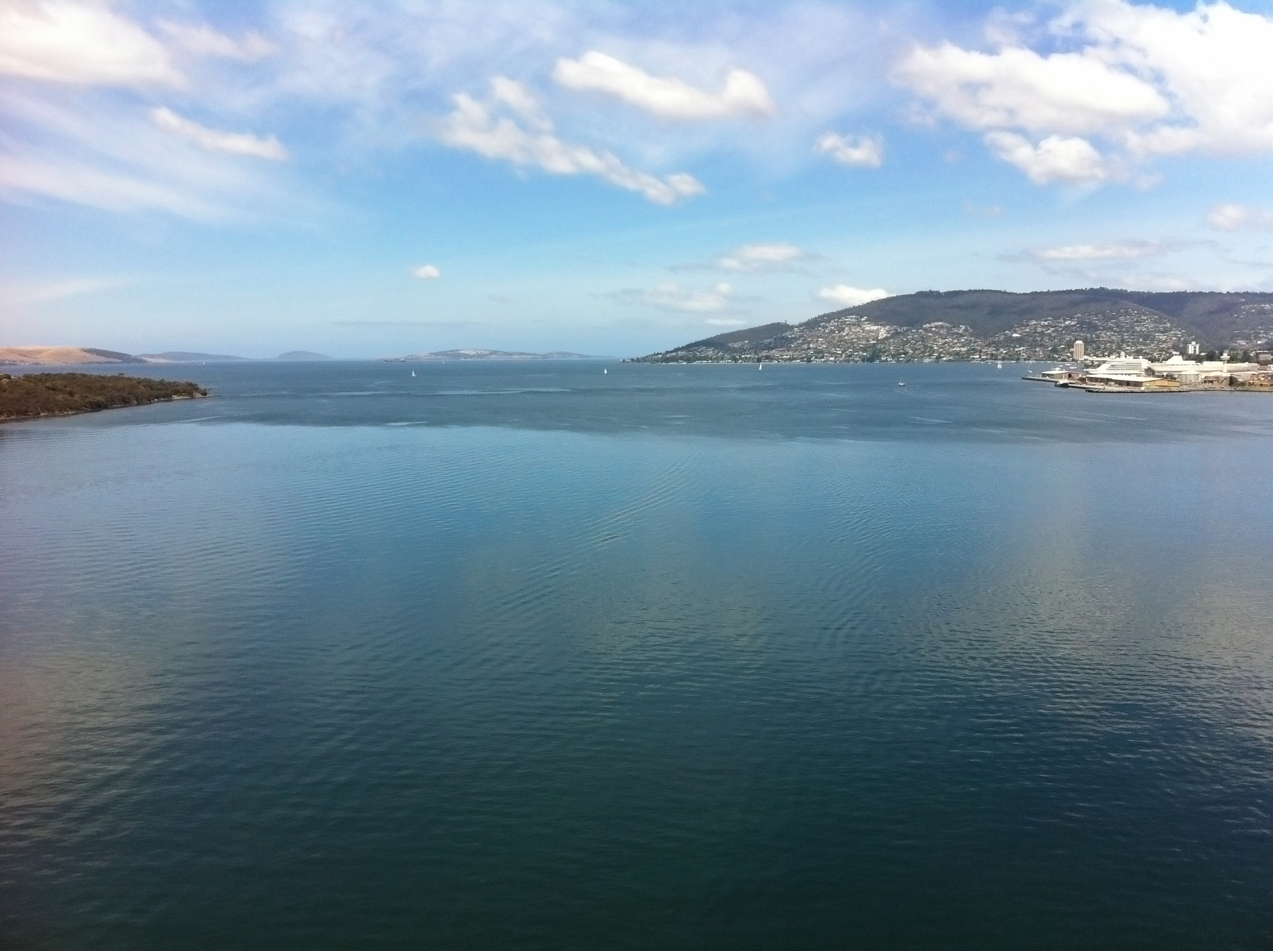 A sea breeze moving up the estuary of the River Derwent in Hobart, Tasmania, Australia.